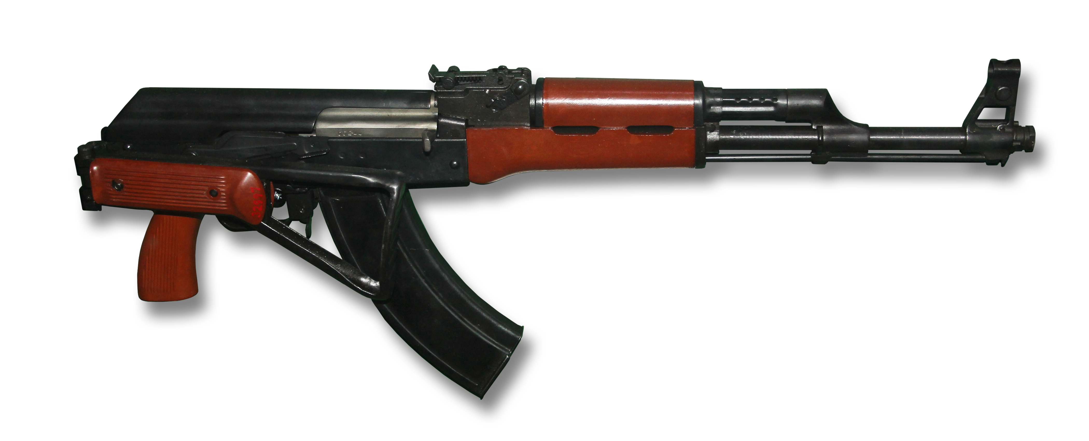 Chinese Type 56-2 export model, Finnish designation 7.62 mm assault rifle model 56 with side-folding stock